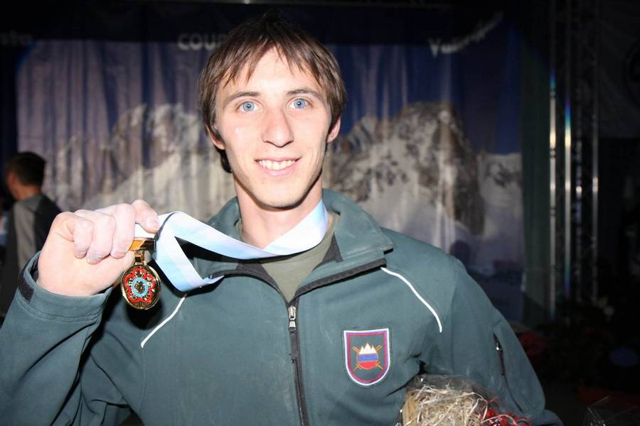 Klemen Bečan at the 2010 Winter Military World Games